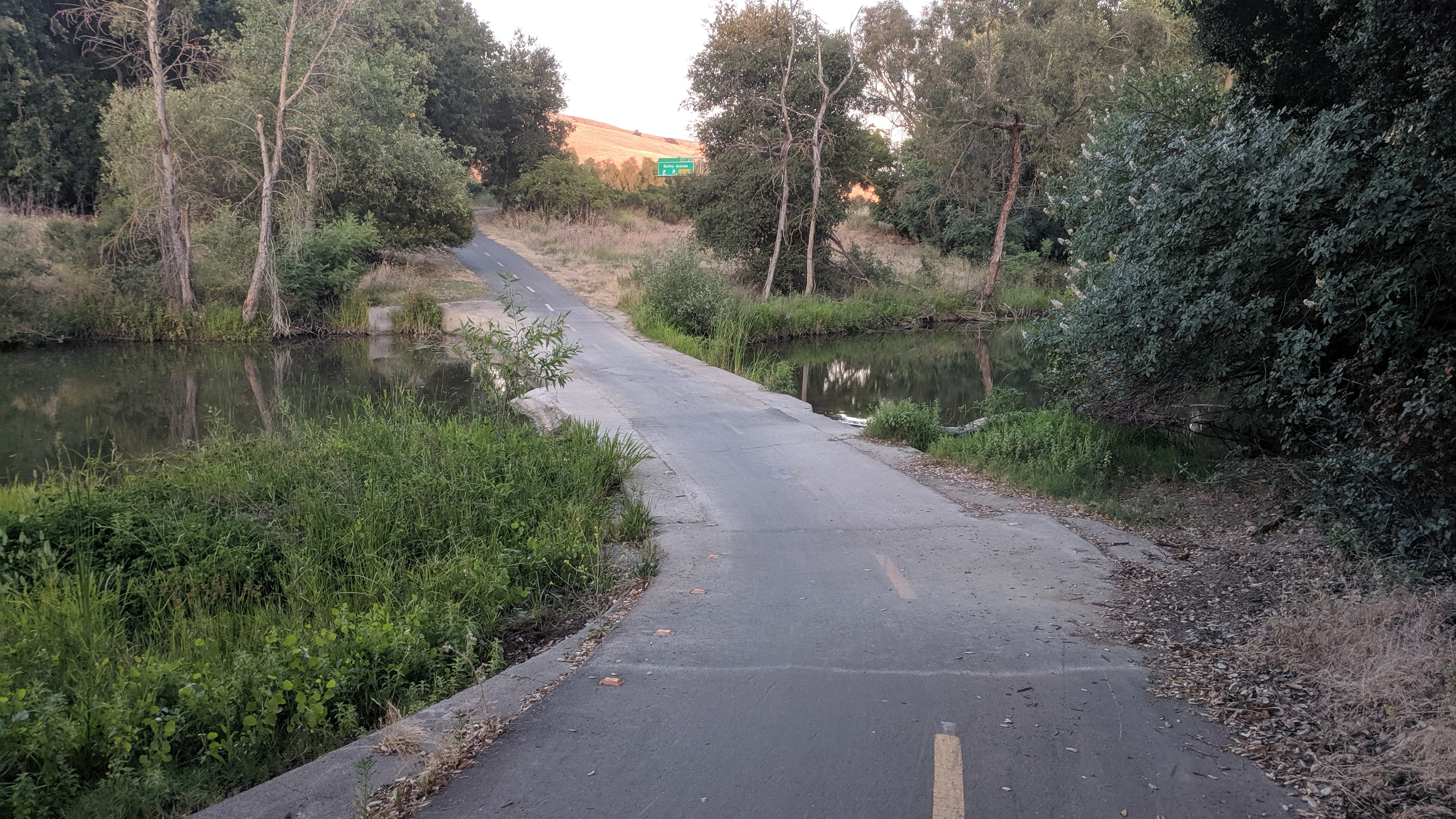 Coyote Creek Trail crosses Coyote Creek near Bailey Avenue in the Coyote Valley south of San Jose. In the background is the highway sign for the Bailey Avenue exit on US 101